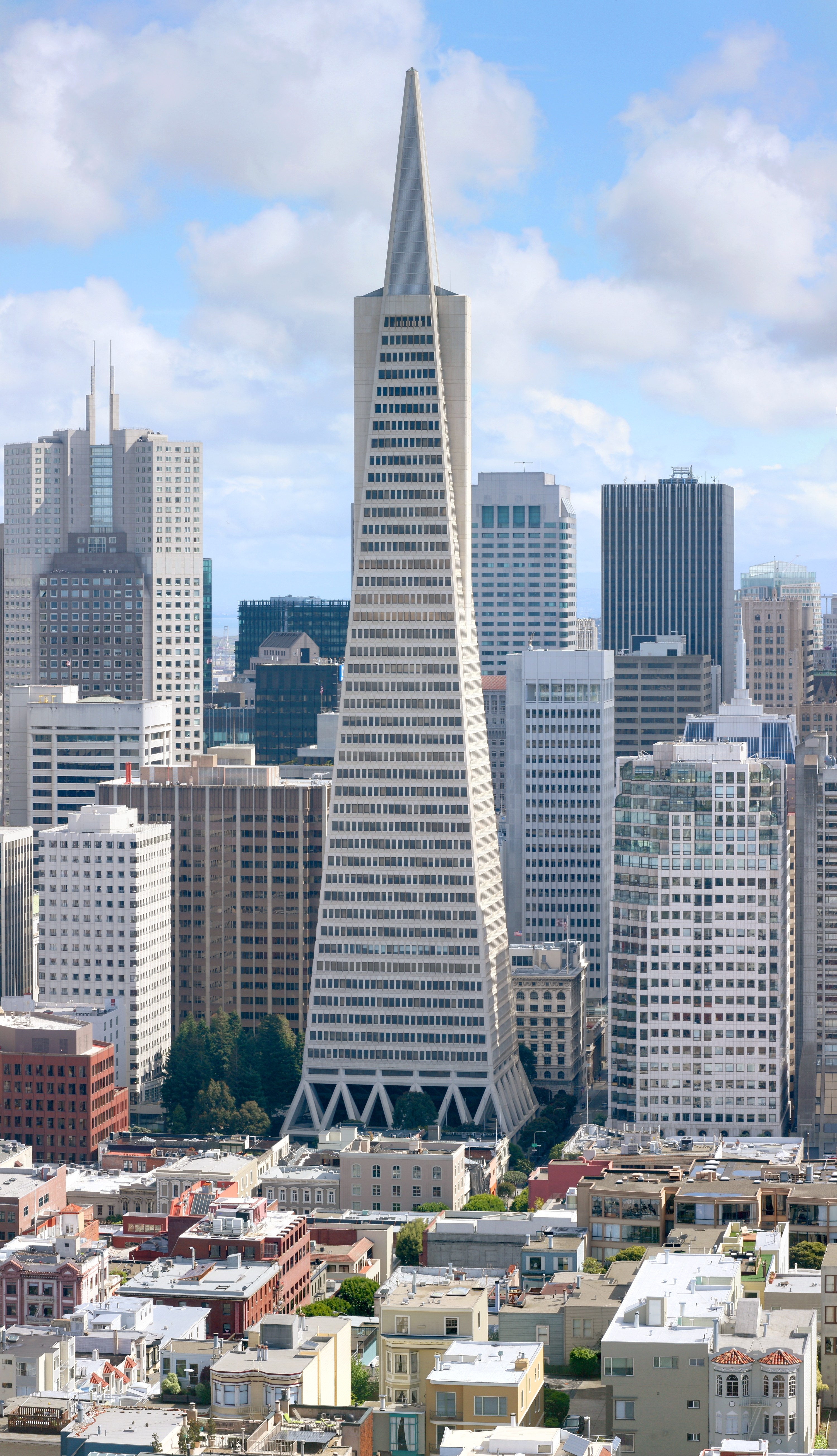 Transamerica building, downtown San Francisco, CA, USA. Photo taken from Coit tower.